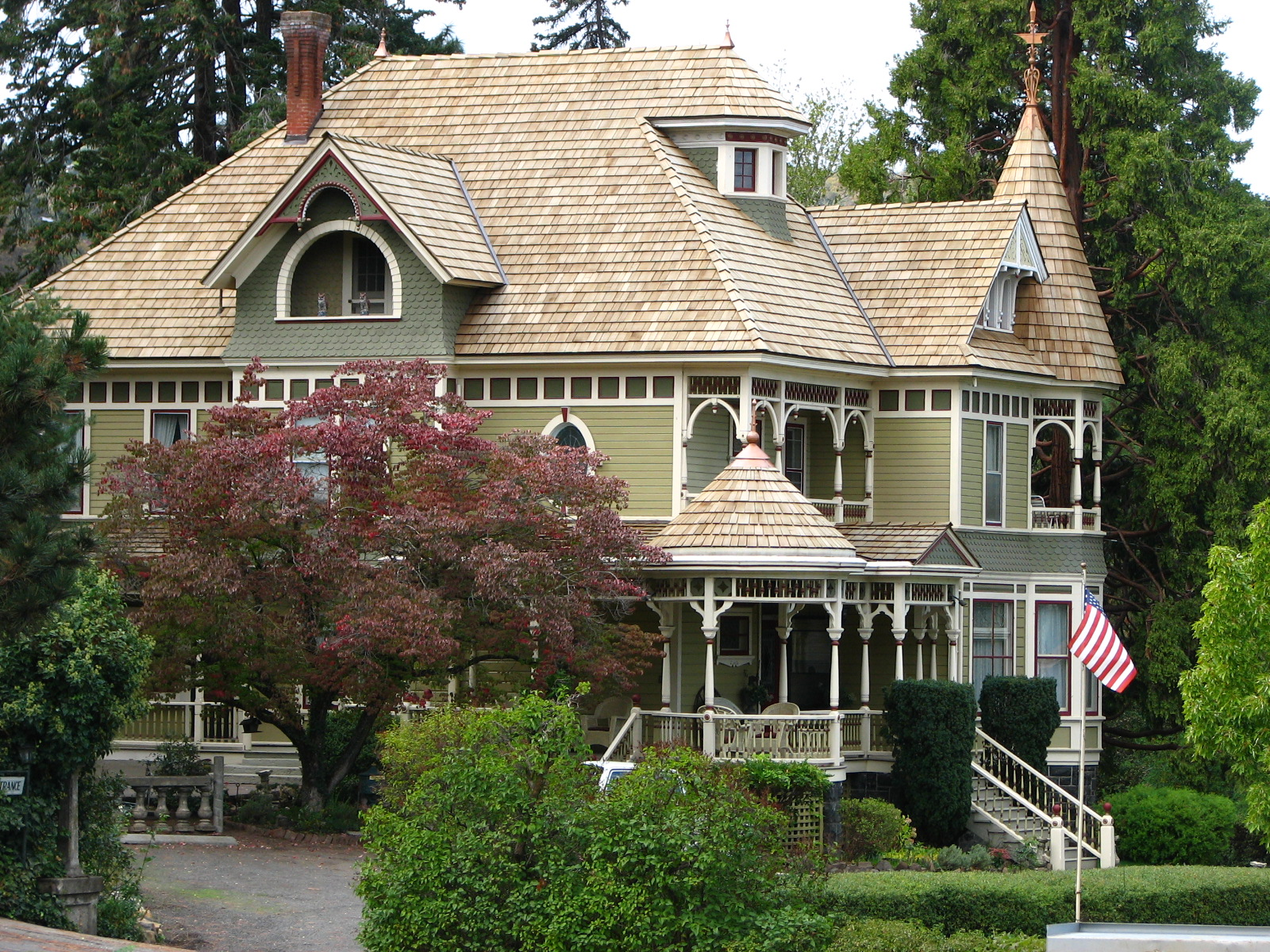 The historic Bennett–Williams House (built 1899), located at 608 West 6th Street in The Dalles, Oregon, United States, is listed on the US National Register of Historic Places. It is also identified as a contributing resource in the National Register-listed Trevitt's Addition Historic District.